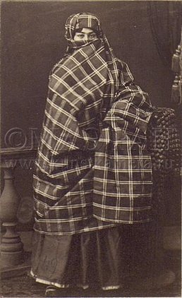 Azeri woman from Baku